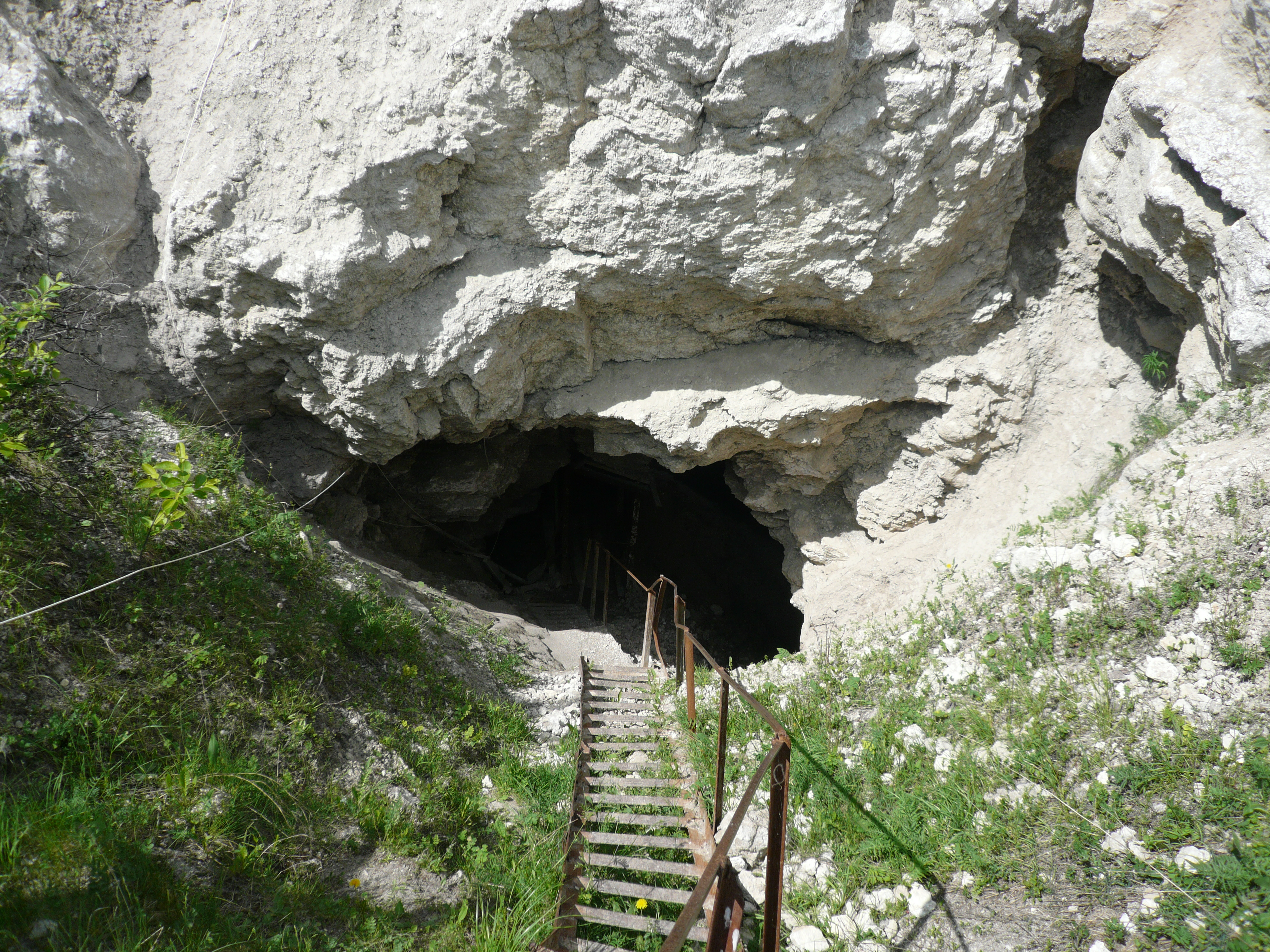 The entrance to the Orda cave. Вход в Ординскую пещеру